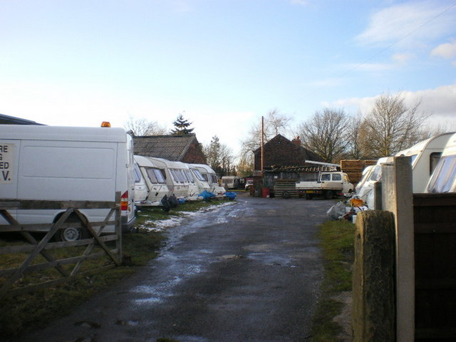 White Moss Farm off Greenside Way